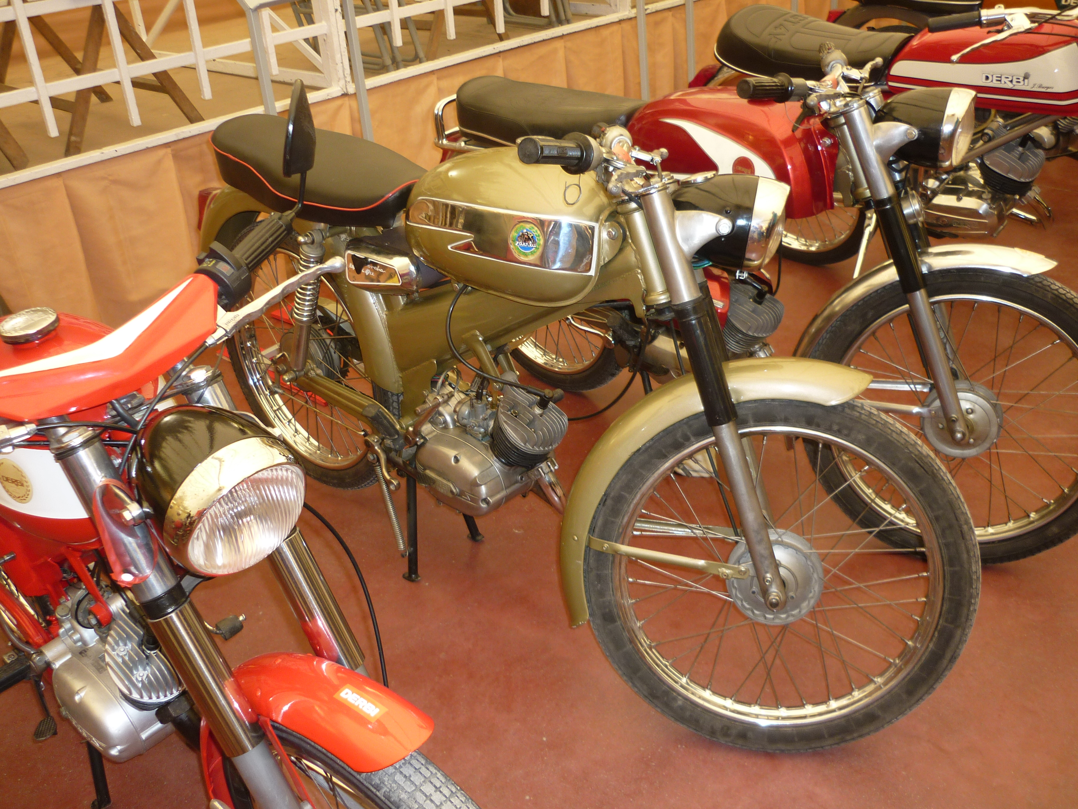 Derbi Antorcha 49cc (1966). Motorcycle meeting held on September 10, 2011 in Can Carrancà (near the Derbi factory in Martorelles, Catalonia).